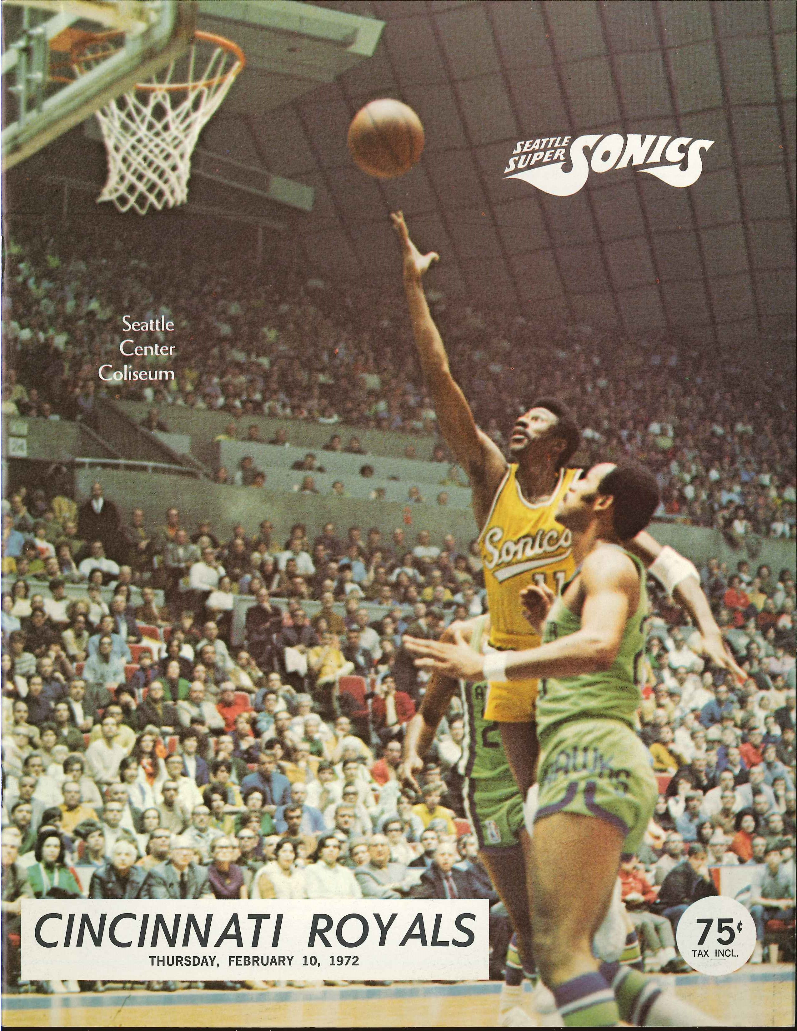 Seattle SuperSonics program, 1972 (Lee Winfield trying to score). Picture found in Vertical File 1331, Seattle Municipal Archives.